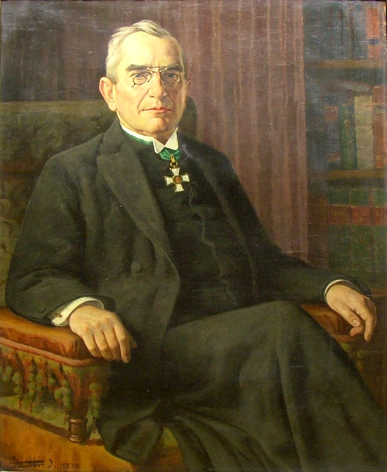 Sándor Takáts.